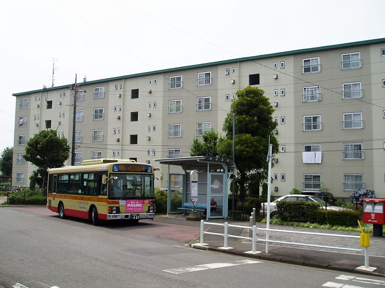 Kanagawa Chuo Kotsu Ya063 Isuzu PA-LR234J1 at Kamiwada Danchi